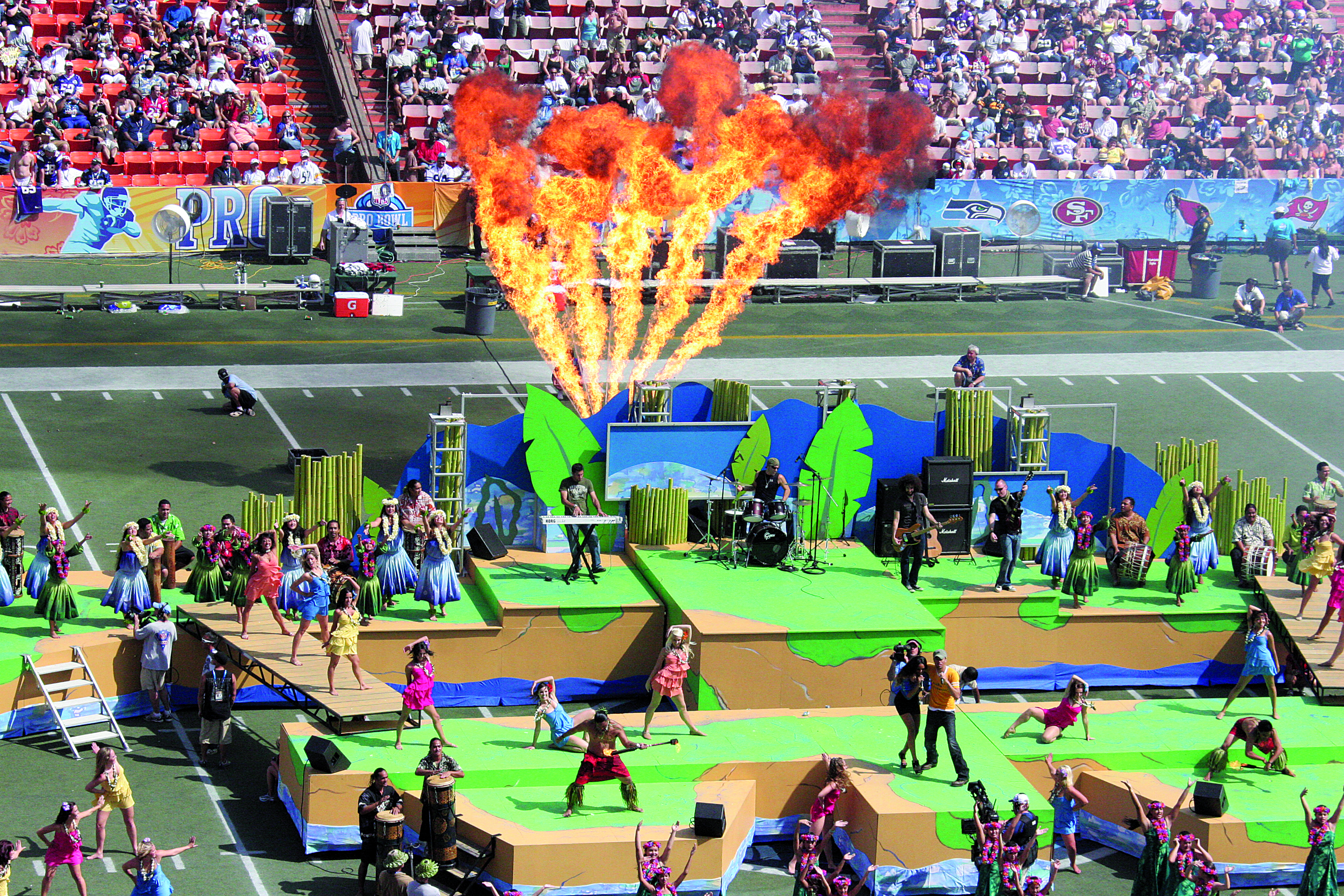 Marines and sailors volunteered to help with the 2009 Pro Bowl pregame and halftime shows as well as other event during Pro Bowl Week in Honolulu.